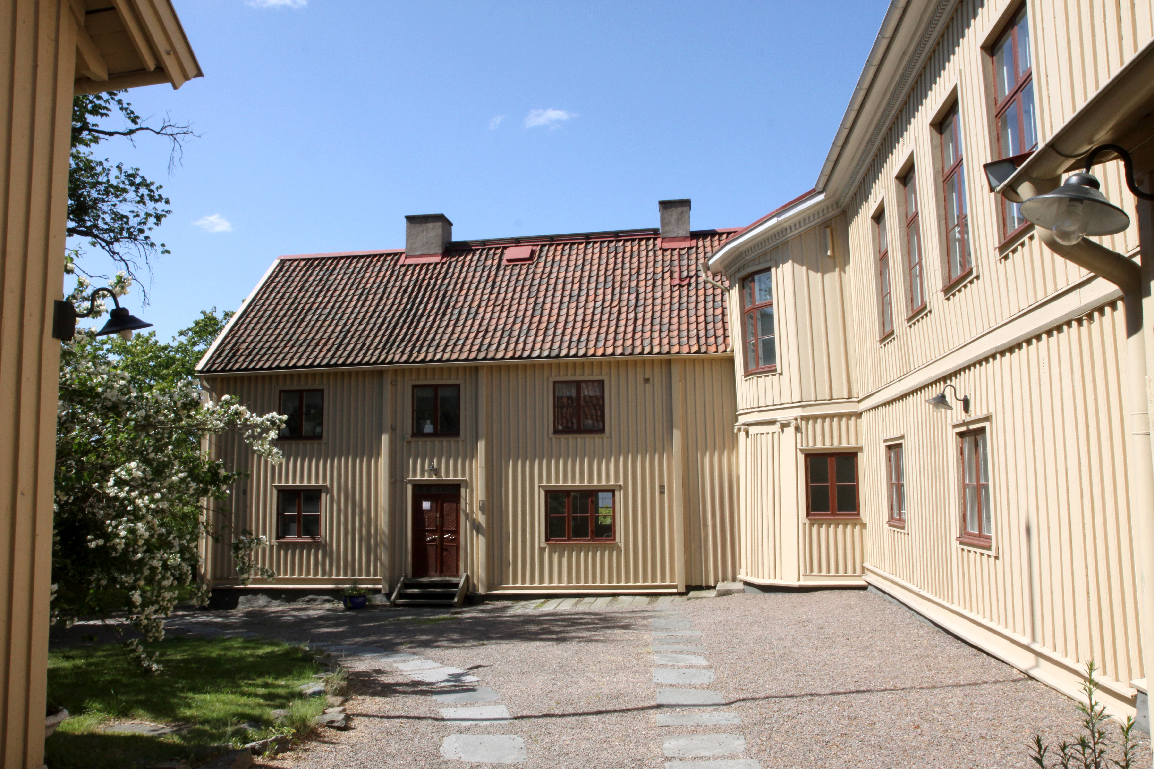 Kustens hus in Gothenburg, Sweden